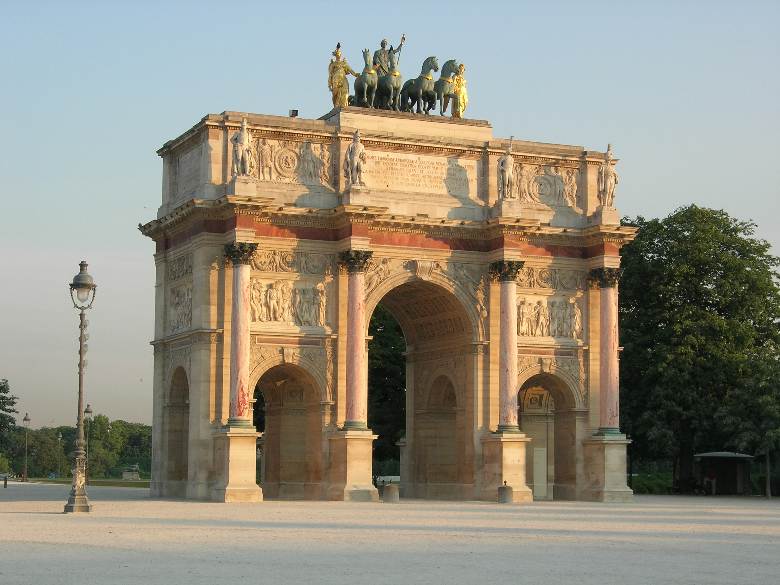 The Arc de Triomphe du Carrousel, a triumphal arch in Paris, France.